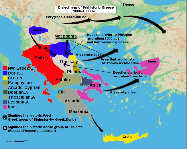 recreation of "Dialect map in Prehistoric Greece"